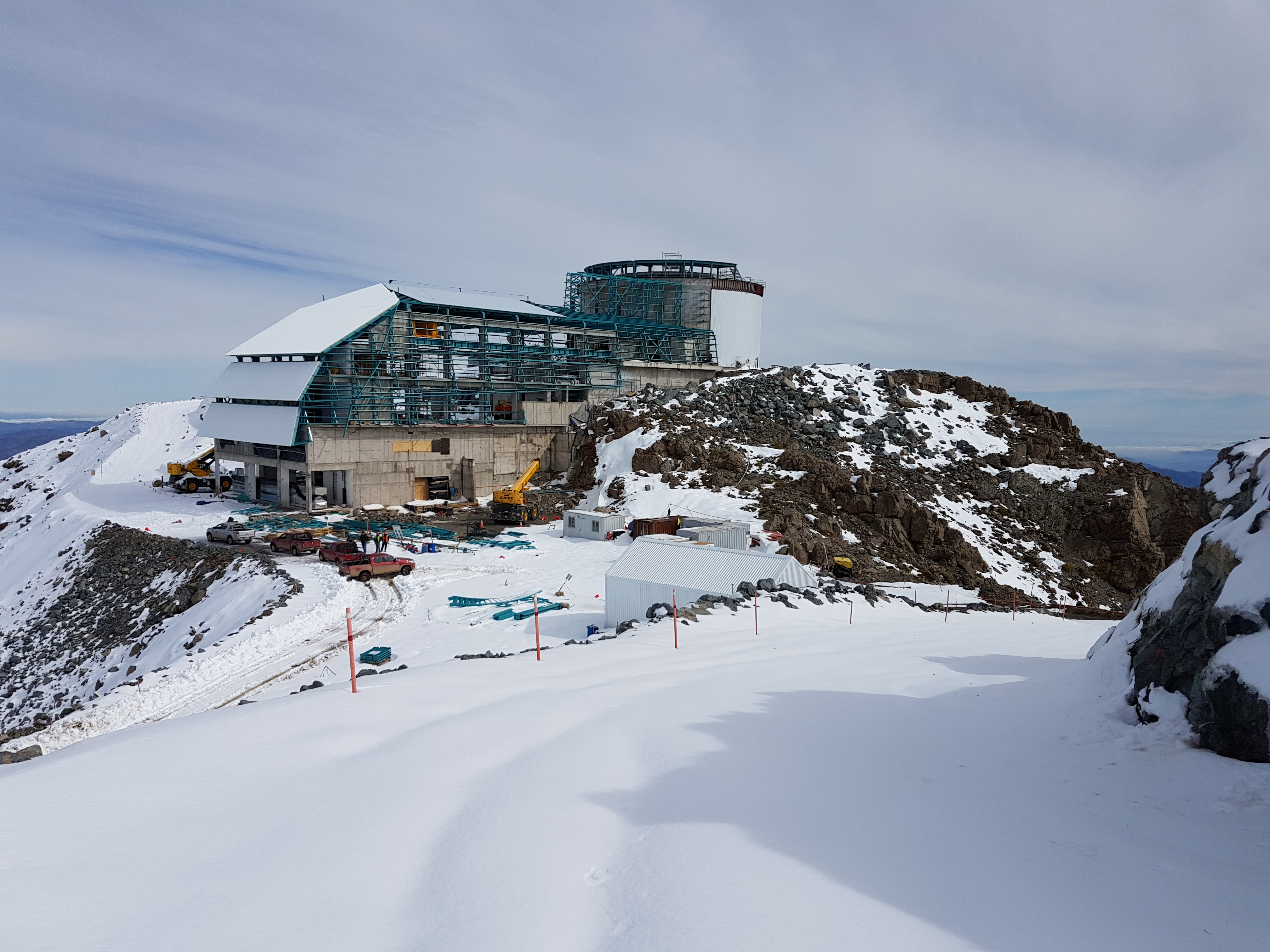 Construction Update of the LSST telescope (may 2017)